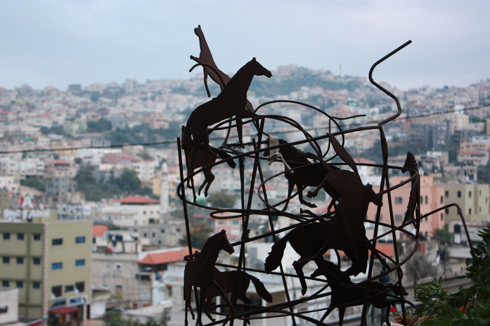 Art of Israel